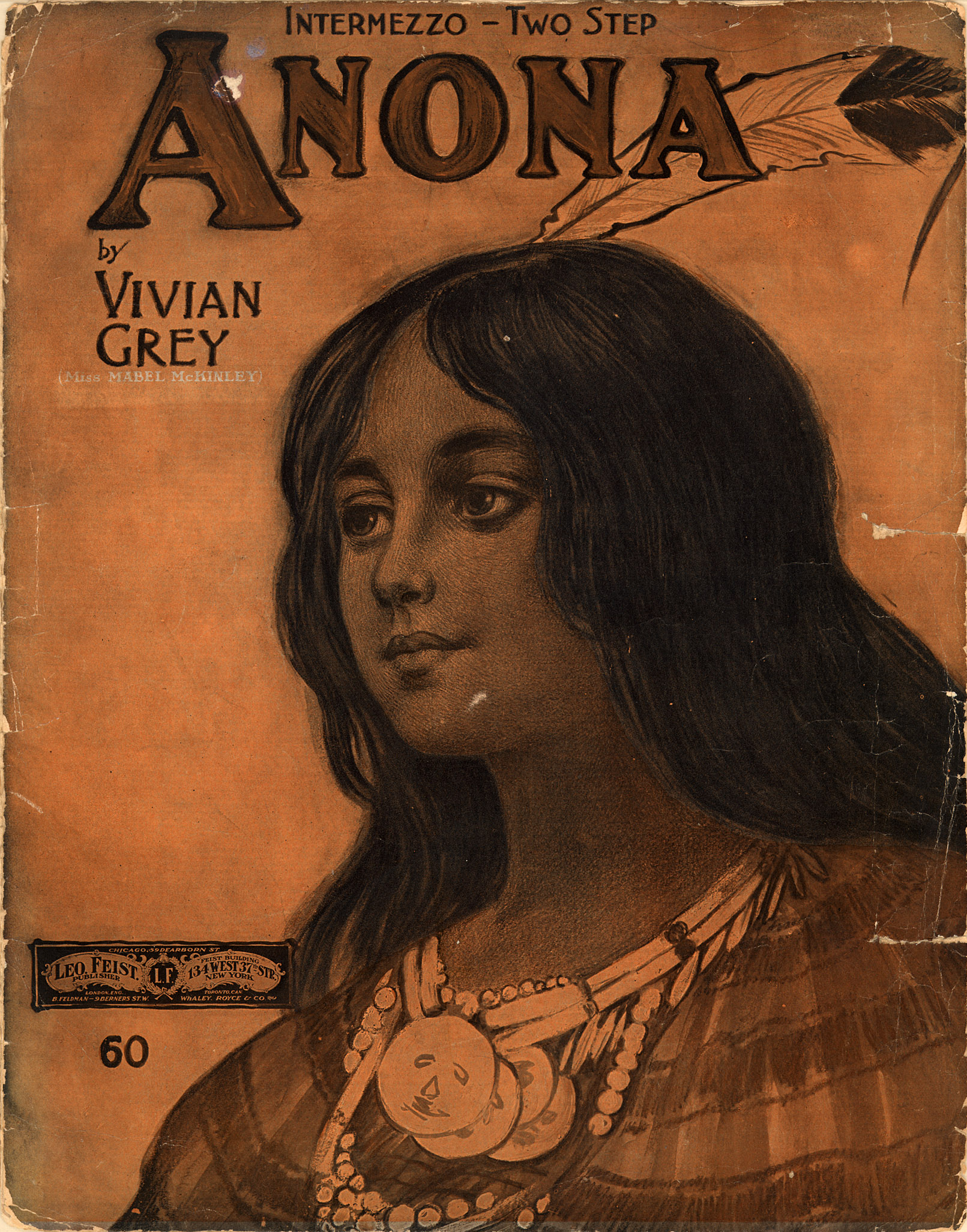 "Anona" Intermezzo Two-Step. 1903 sheet music cover